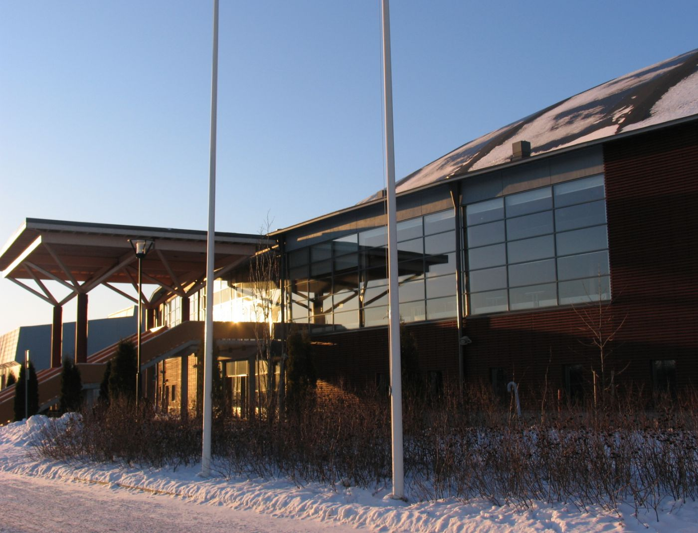 Joensuu Areena